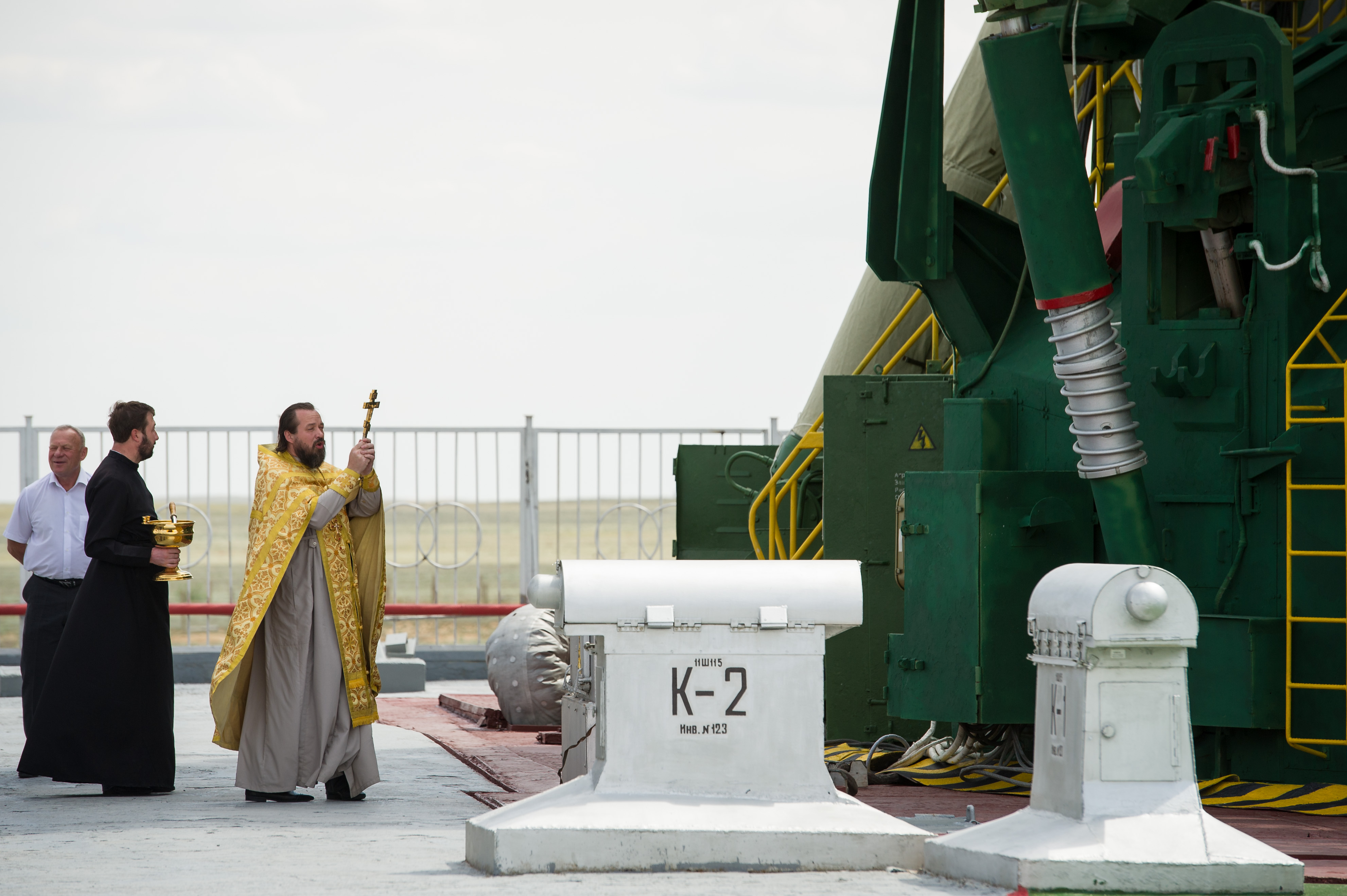 An Orthodox priest blesses the Soyuz rocket at the Baikonur Cosmodrome launch pad on Monday, 14 May 2012 in Kazakhstan. The launch of the Soyuz spacecraft with Expedition 31 Soyuz Commander Gennady Padalka and Flight Engineer Sergei Revin of Russia, and prime NASA Flight Engineer Joe Acaba occurred at 09:01 local time on Tuesday, 15 May. Photo Credit (NASA/Bill Ingalls)